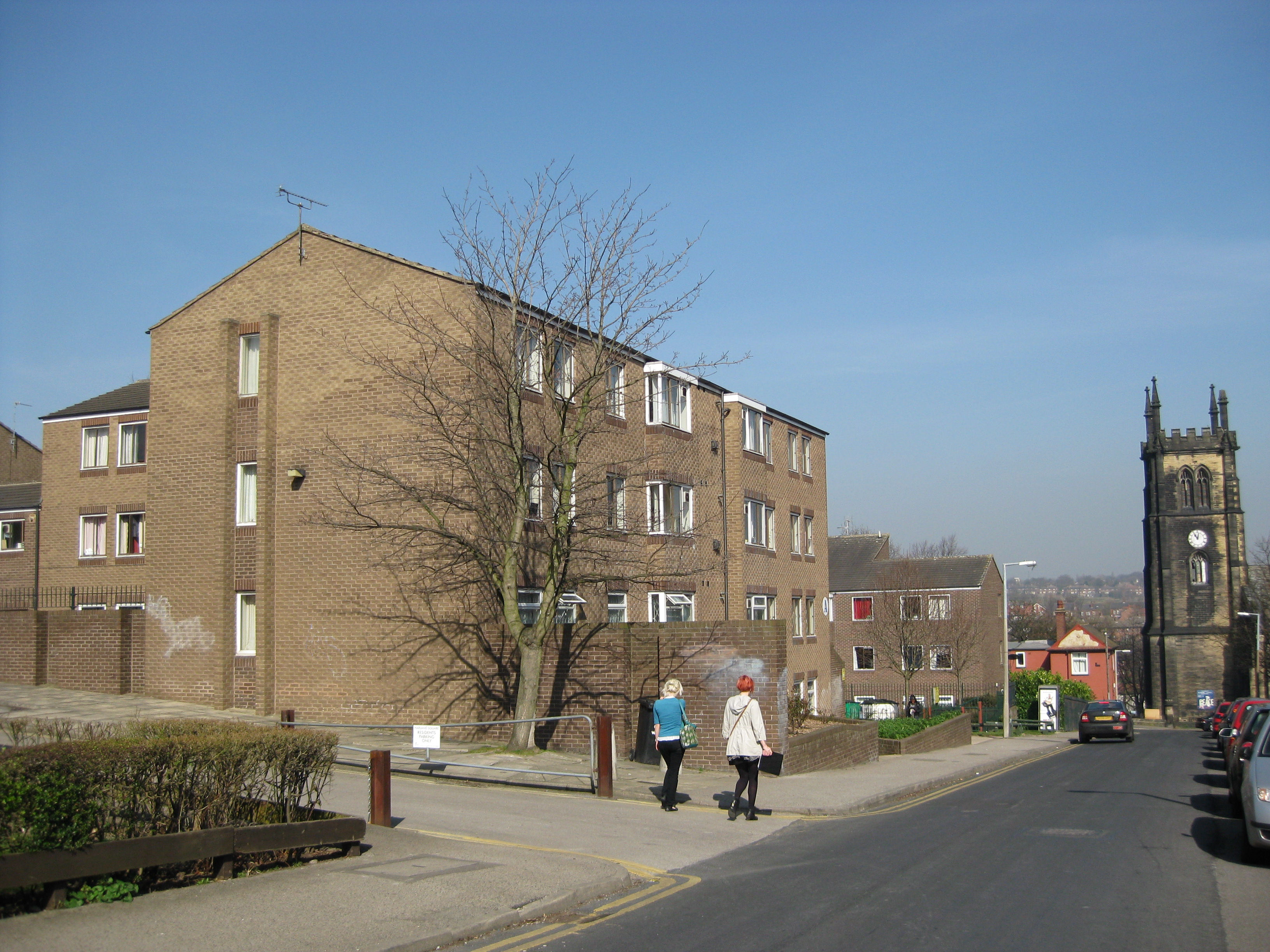 St Mark's Residences, St Mark's Street, Leeds LS2 9EL. University of Leeds student flats. With St Mark's church behind